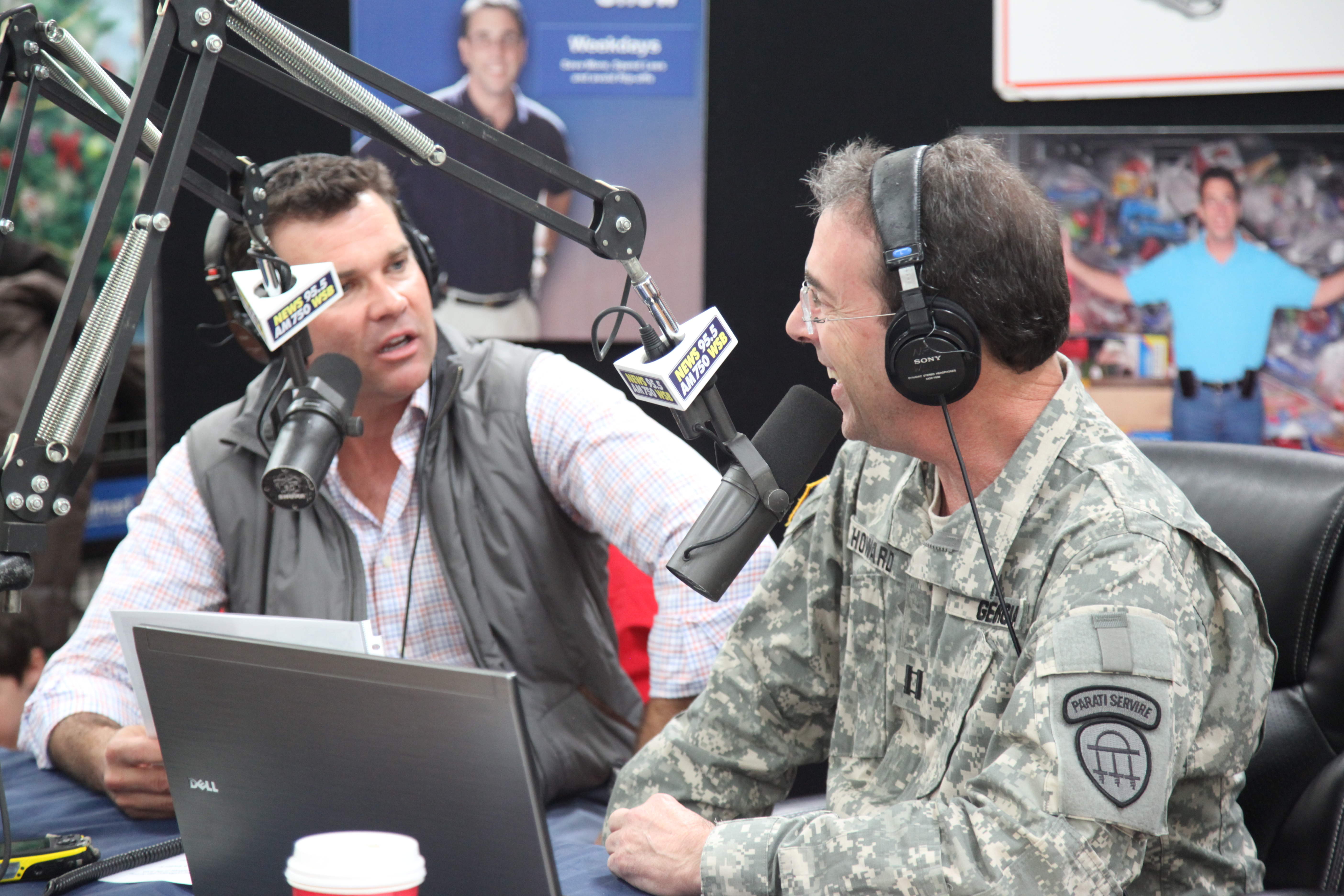 MARIETTA, Ga., Dec. 15, 2014 - Radio personality and Georgia State Defense Force Capt. Clark Howard takes the airwaves with WSB-TV news anchor Justin Farmer to raise awareness and donations for the 24th annual "Clark's Christmas Kids" campaign. The toy drive aims to provide Christmas gifts to thousands of Georgia foster children each year. Photo by Sgt. Ashley Sutz, Georgia Army National Guard / Released